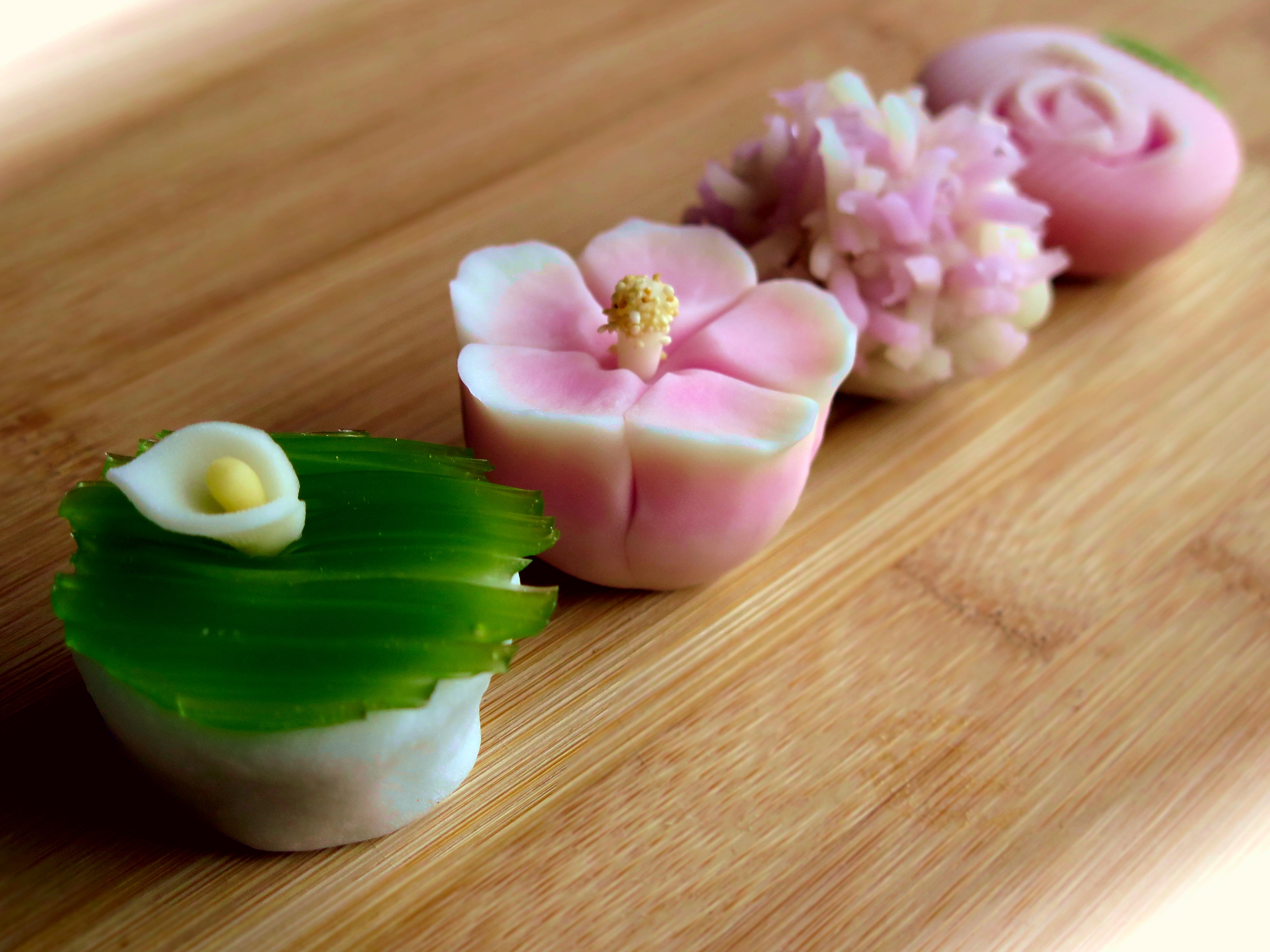 Japanese sweets. Asian skunk cabbage, rose of Sharon, hydrangea, and rose.